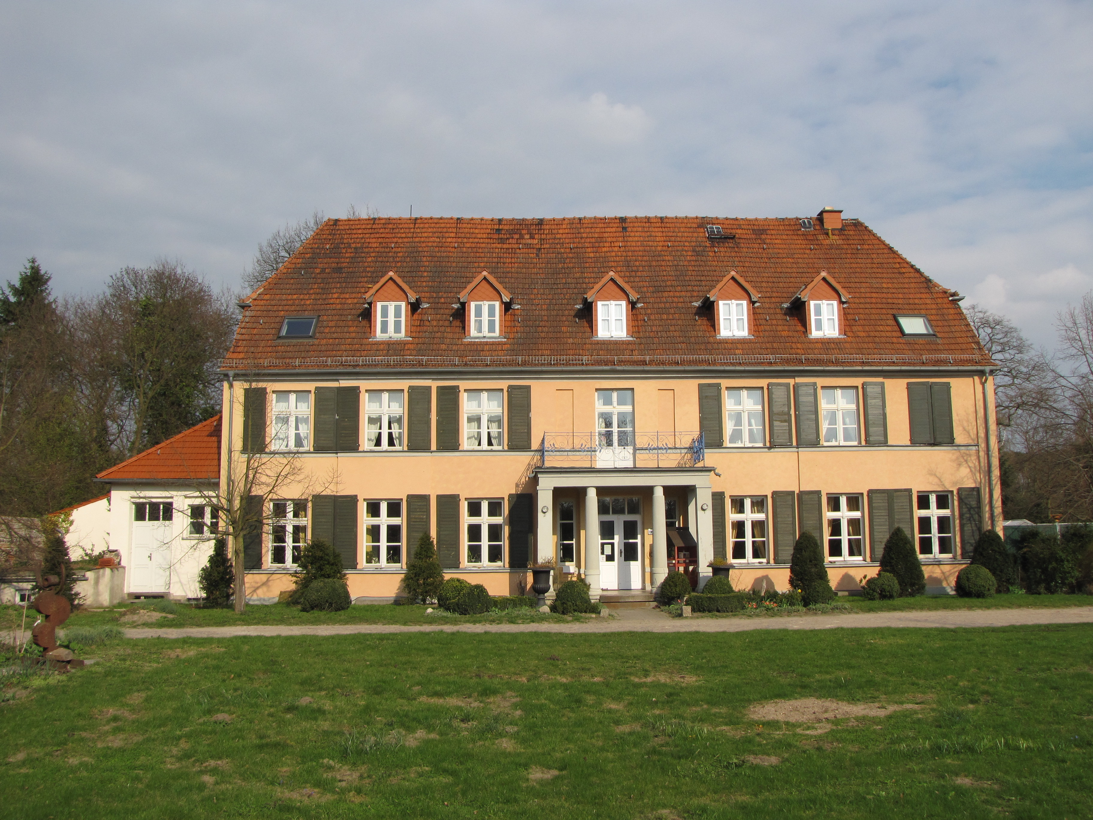 Klein Kienitz, Gem. Rangsdorf, Brandenburg, Germany, manor house/Gutshaus